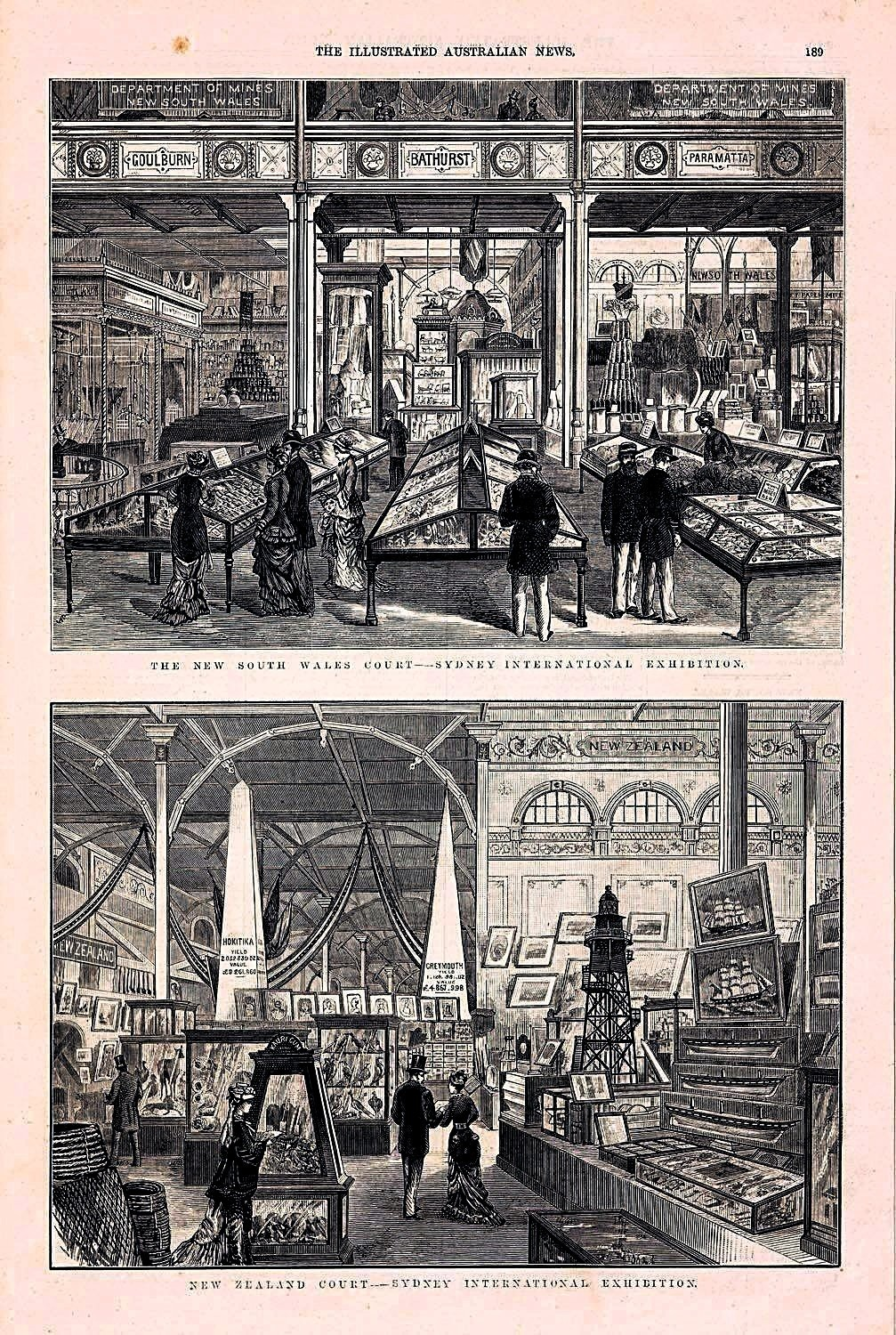 "The New South Wales Court" & "New Zealand Court" of the Sydney International Exhibition. "The Illustrated Australian News".